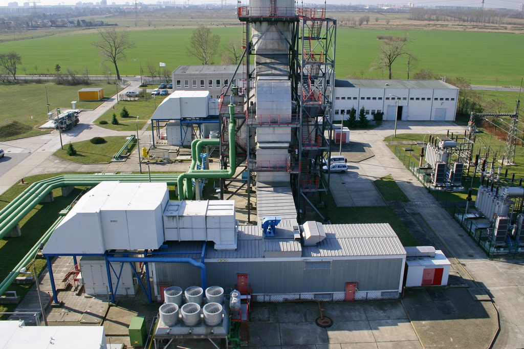 General Electric MS6001B gasturbines C4-D4 at the powerplant Ahrensfelde